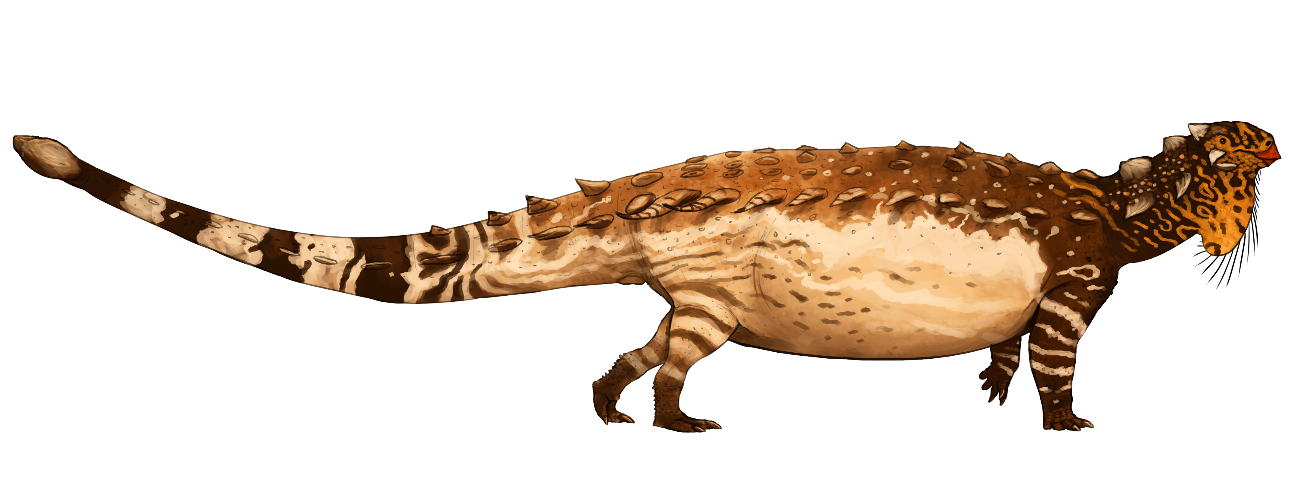 Illustration of the ankylosaur Pinacosaurus, drawn by Jack Wood for .